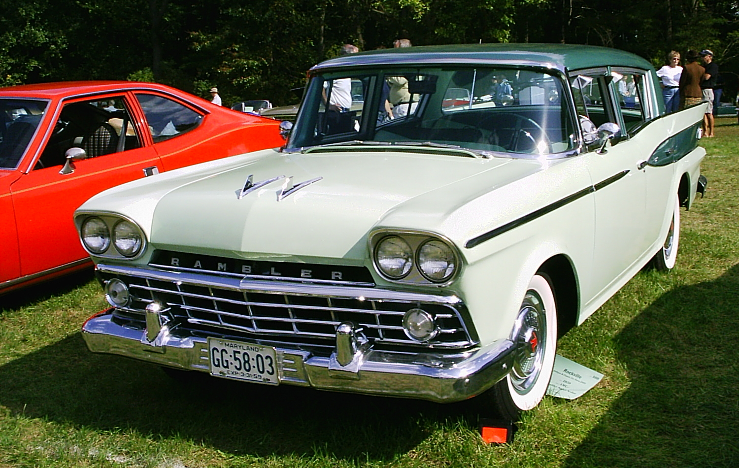 1959 Rambler Six four door sedan made by American Motors Corporation (AMC) front view (see also rear view) Photograph taken at annual car show sponsored by the Town of Rockville, MD.